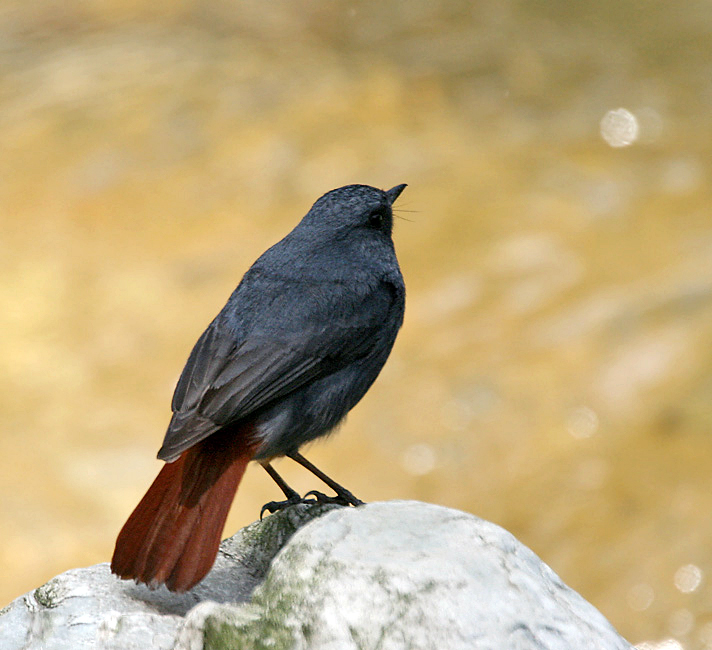 Plumbeous Water Redstart (Rhyacornis fuliginosus) in Kullu District of Himachal Pradesh, India.